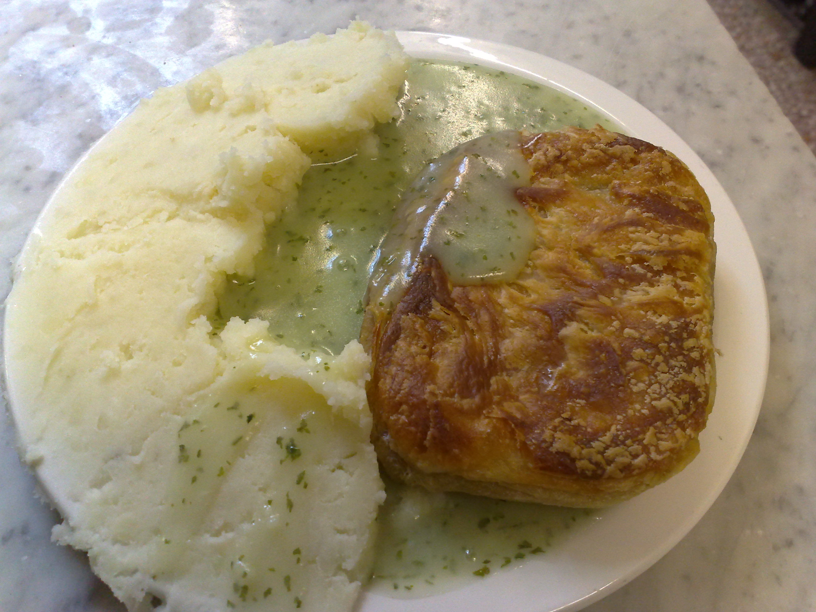 Pie, mash and liquor - a traditional working class London (cockney) dish, From Manze's pie and mash shop on Tower Bridge Road in Bermondsey, London.